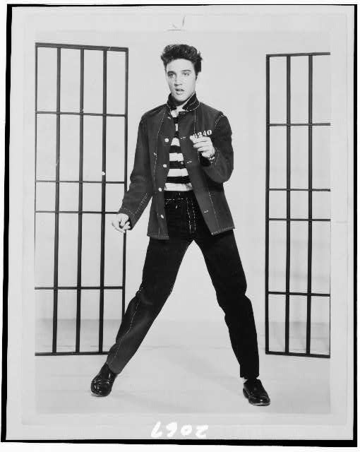 Public domain foto of Elvis Presley staring in Jailhouse Rock